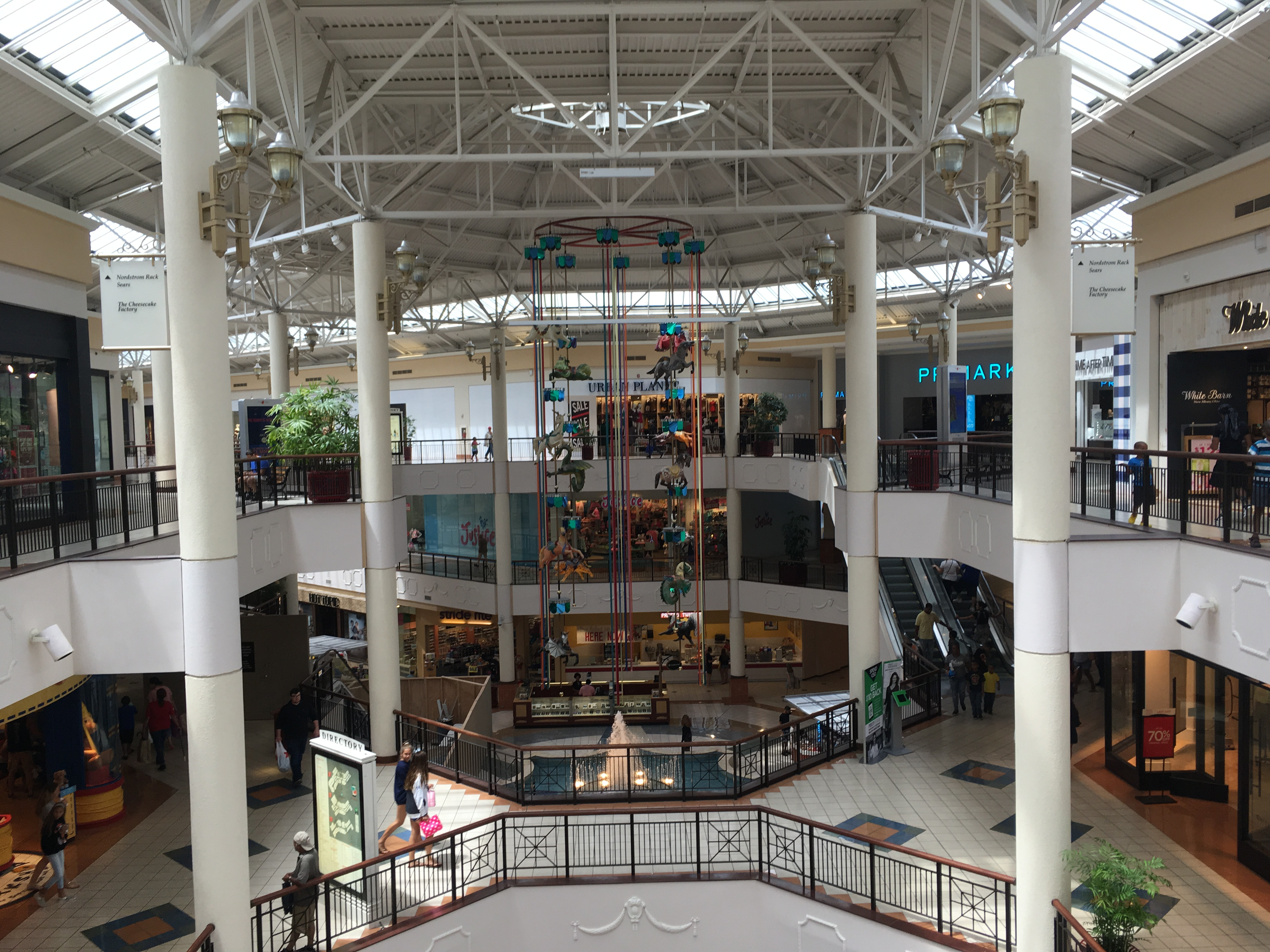 A view from the third floor of the Willow Grove Park Mall in Willow Grove, Pennsylvania looking toward Primark